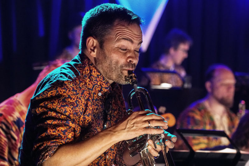 Arve Henriksen performing with the Danish Radio Big Band (Featuring Palle Mikkelbor and Arve Henriksen, Denmark 2020)